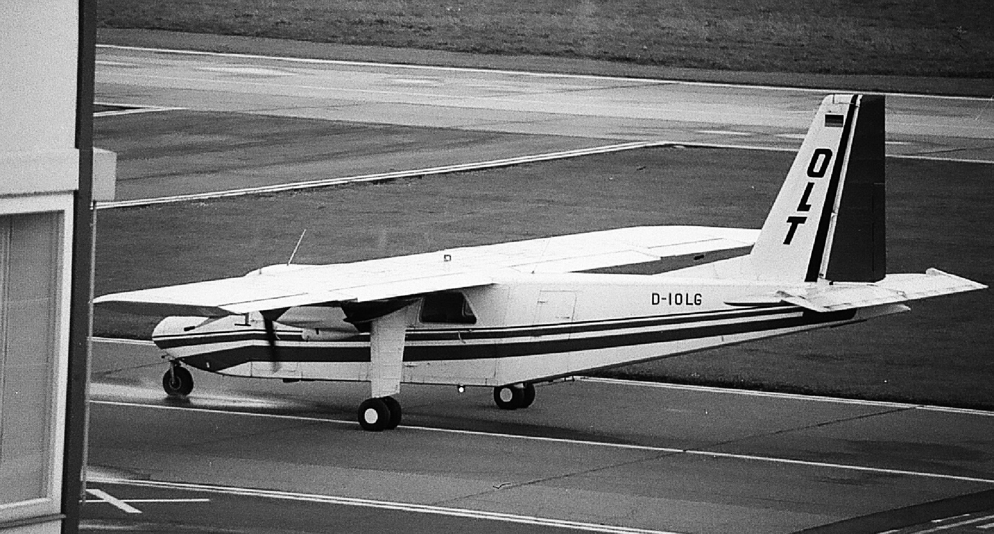 BN-2 Islander D-IOLG OLT at BRE 11.8.1974, F103-3-b